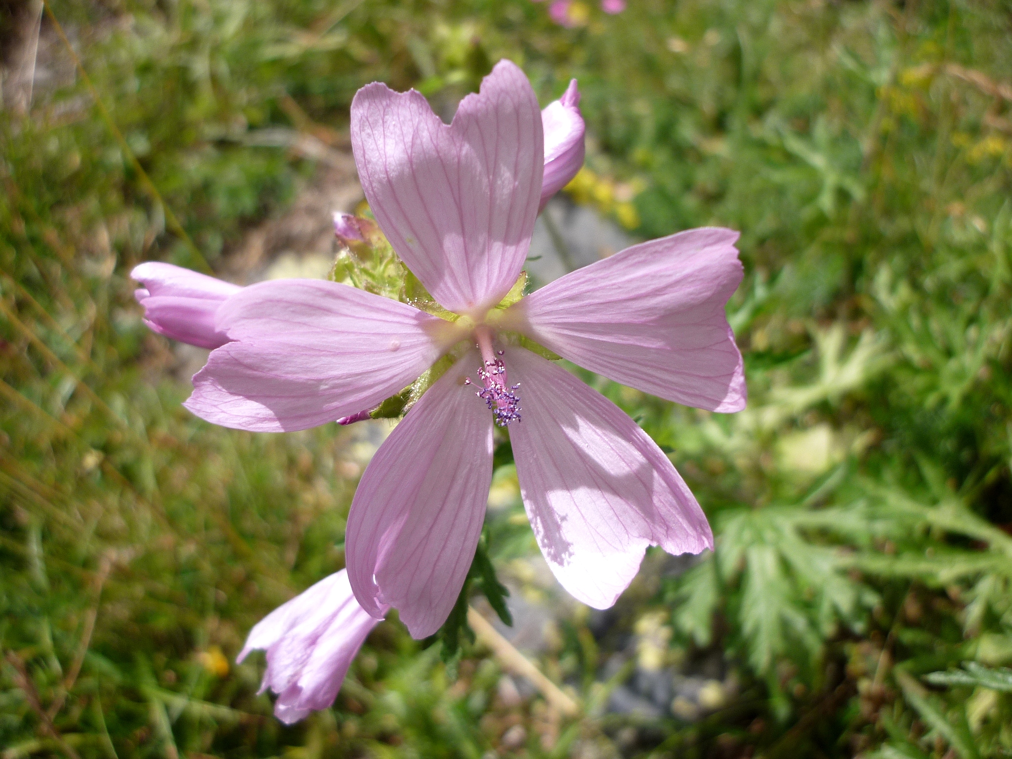 Malva moschata. In Vielha e Mijaran (Val d'Aran - Catalunya. To 1.470 m altitude